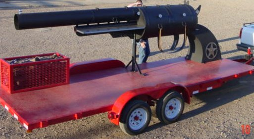 My friend in Lubbock designed and helped build this giant pistol barbecue grill. Here are the specs: 19 Foot Long 36" x 60" Primary Grill (2 Doors) 12" x 36" Secondary Grill (In Barrel) Fire Box in Handle Front Sight Damper Ranger Star Damper Hammer Damper (Hard to see) Steam Pan Handle Firebox Stainless Steel Tray (Forward of Cylinder ) Weight 750 # As my friend put it: "Heck, it's Texas, what did you expect?"